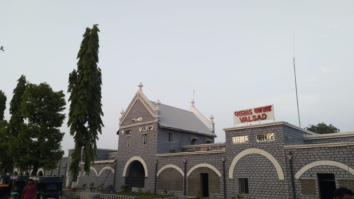 Valsad Railway Building